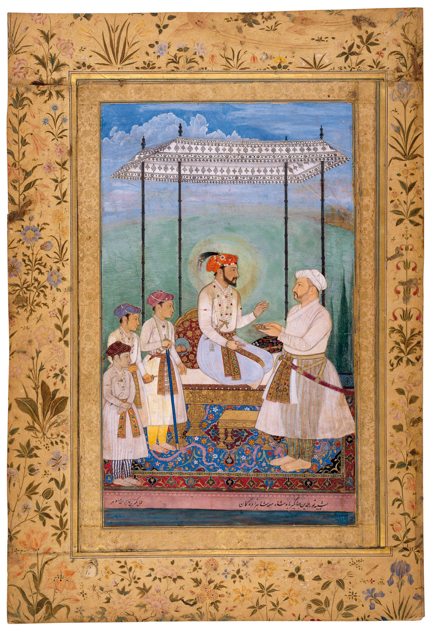 The emperor sits in haloed profile upon a gold-footed throne under a high white canopy, flanked by his three young princes who stand on the left. All are resplendent with opulently bejewelled turbans, necklaces, qatar daggers, and sashes (patkas) against a rounded backdrop of turquoise, perhaps suggesting a globe, as golden light appears on the right. The inscription on this Mughal painting identifies it as a portrait of emperor Jahangir and his three sons, but what we see today are the faces of Shah Jahan (r. 1628-57 CE) and his three eldest sons - Dara Shikoh (1615-59 CE), Shah Shuja' (1616-59 CE) and Awrangzeb (1618-1707 CE) - and their maternal grandfather, Asaf Khan, on the right. It was not unusual for the Mughals to refurbish earlier works for propaganda reasons. The inscription at bottom left reads, “work of the most humble of the house born, Manohar.” Sheila Canby notes that the painting is characteristic of Manohar’s style from about 1615 CE except for the refurbished faces, and that the composition follows the conventions of intimate royal portraits from Akbar’s reign, which, under Jahangir and Shah Jahan in the 1610s–1620s, developed to include a more psychological focus.